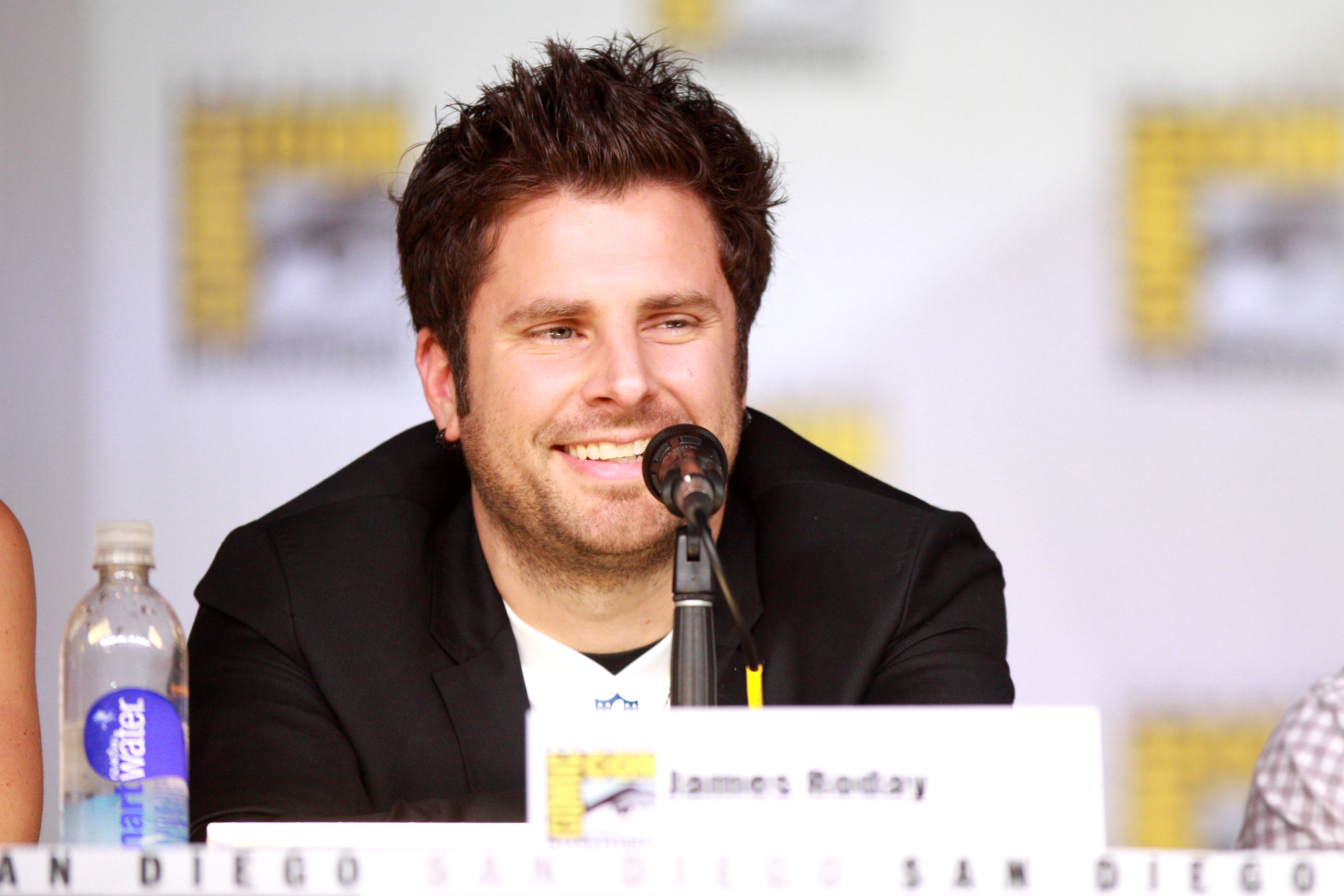 James Roday speaking at the 2013 San Diego Comic Con International, for "Psych", at the San Diego Convention Center in San Diego, California.